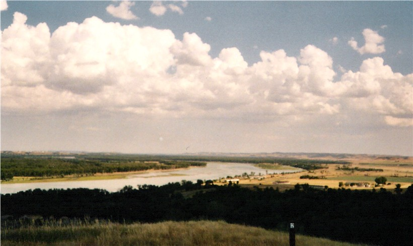 The Missouri River at Ft. Abraham Lincoln south of Bismarck, North Dakota